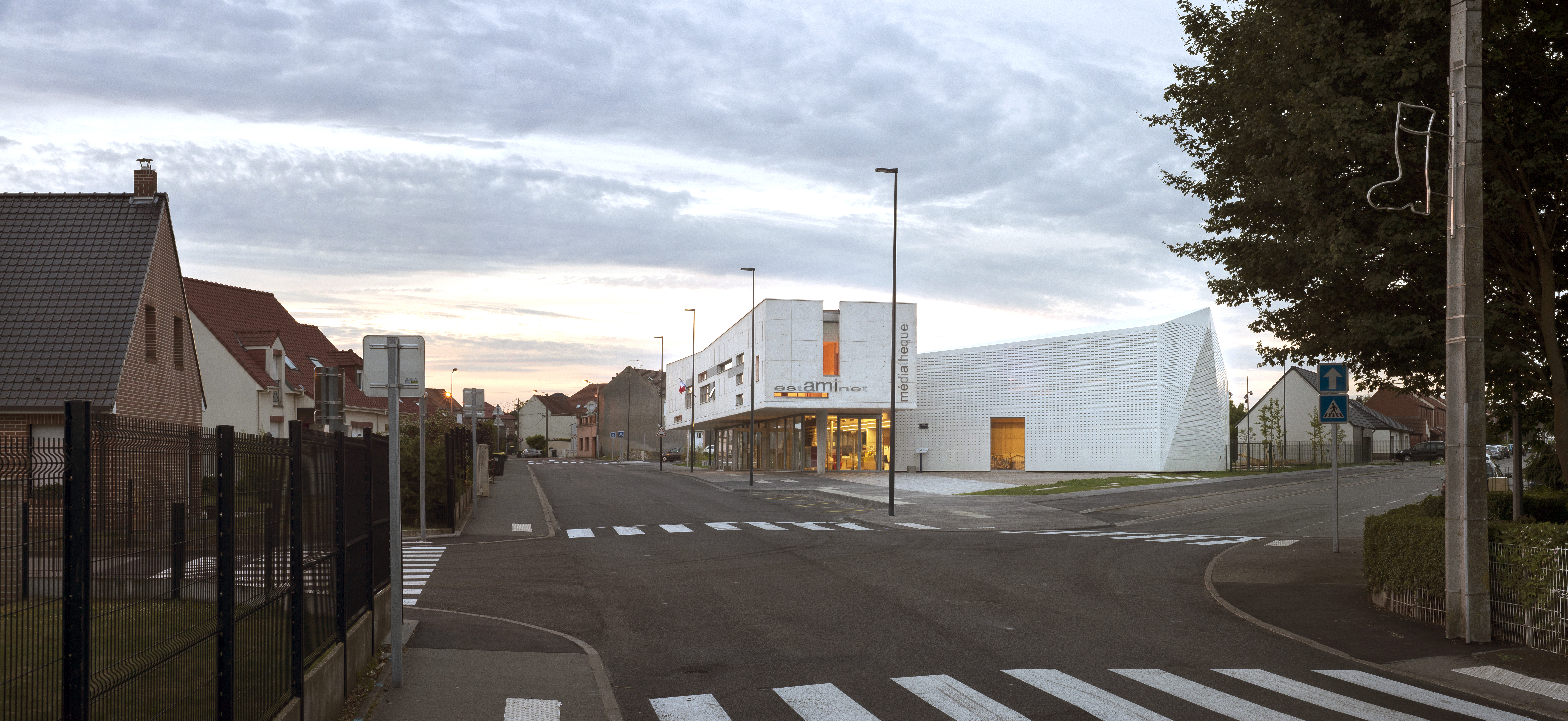 library in France, Grenay, by richard et schoeller, architects